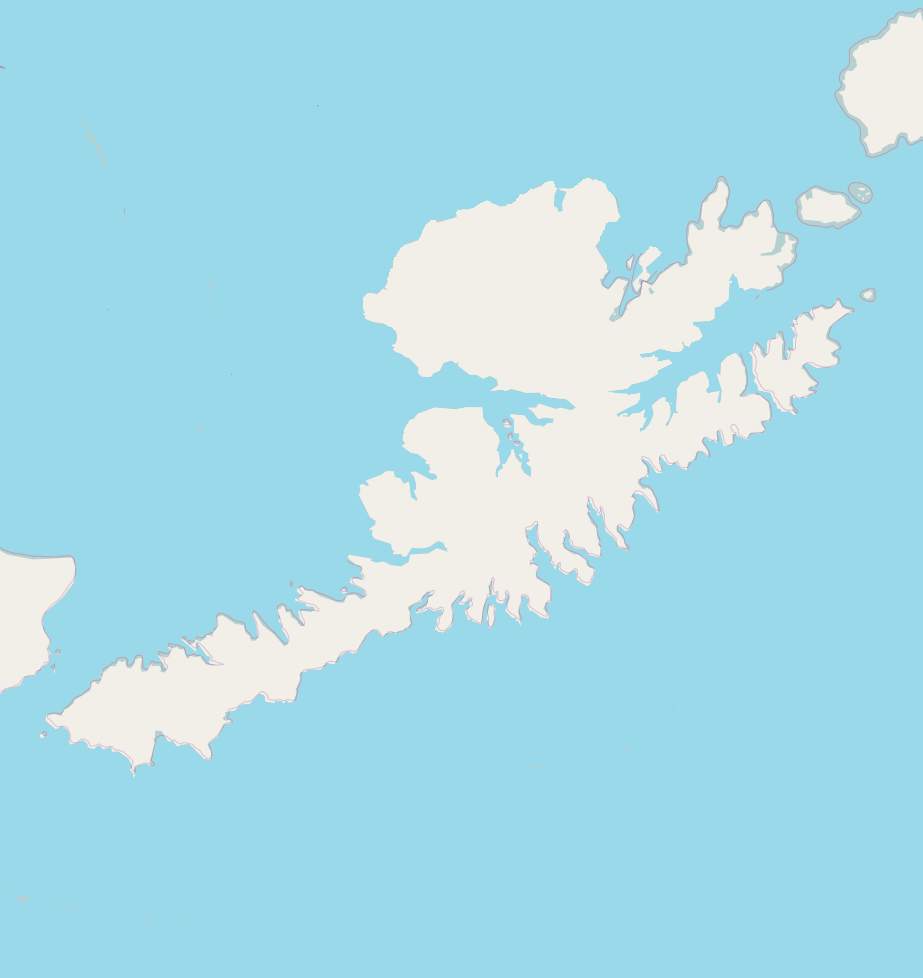 Map of Unalaska Island for pin Geographic limits of the map: N: 54.241° S: 52.971° W: -167.951° E: -165.93°